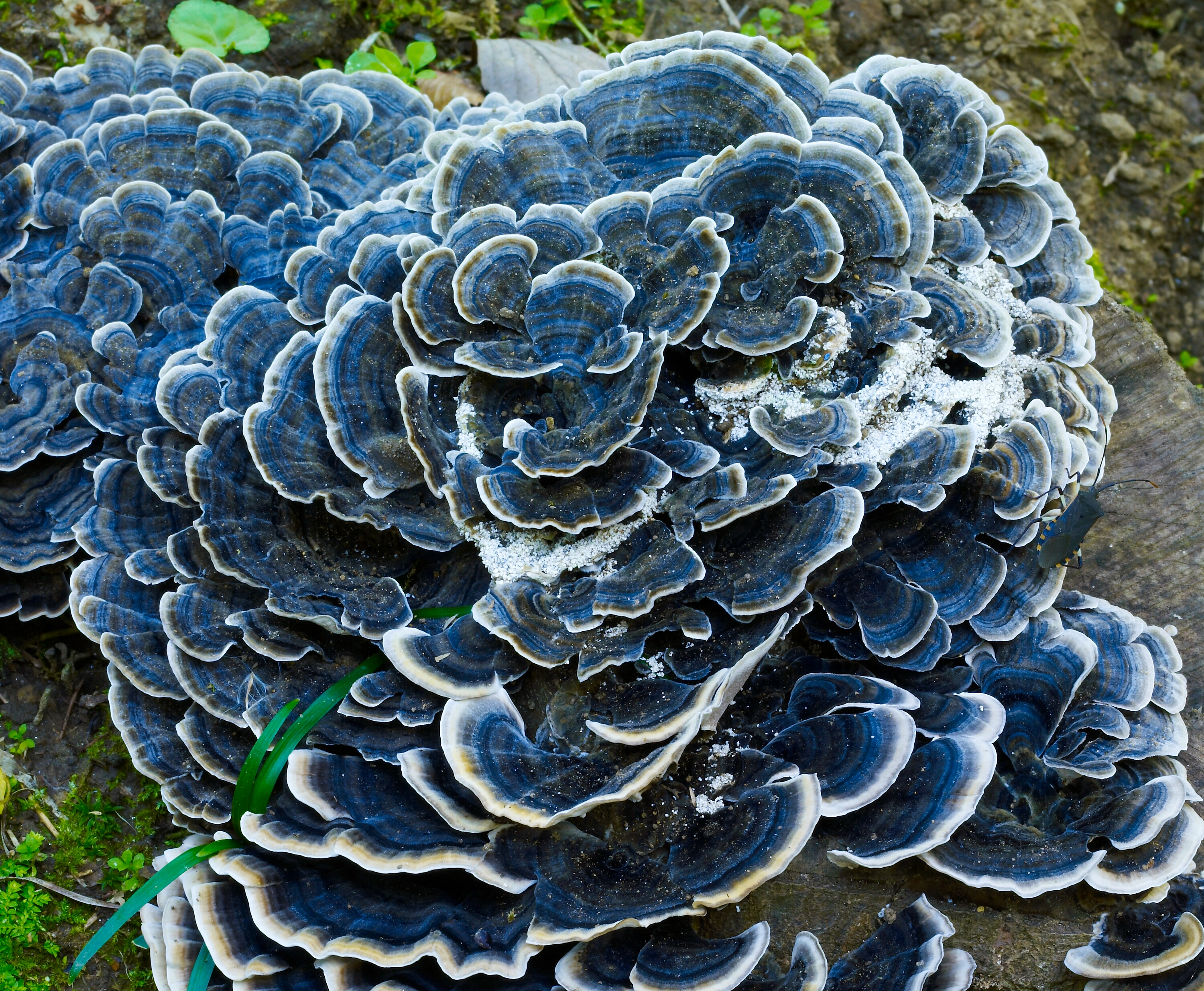 Trametes versicolor cropped